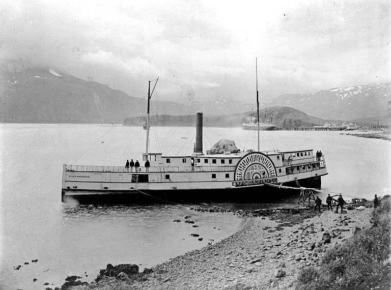 Sidewheeler Eliza Anderson, somewhere in Alaska in 1898, possibly approaching abandonment of the vessel. A much larger vessel can be seen at a wharf in the distance.